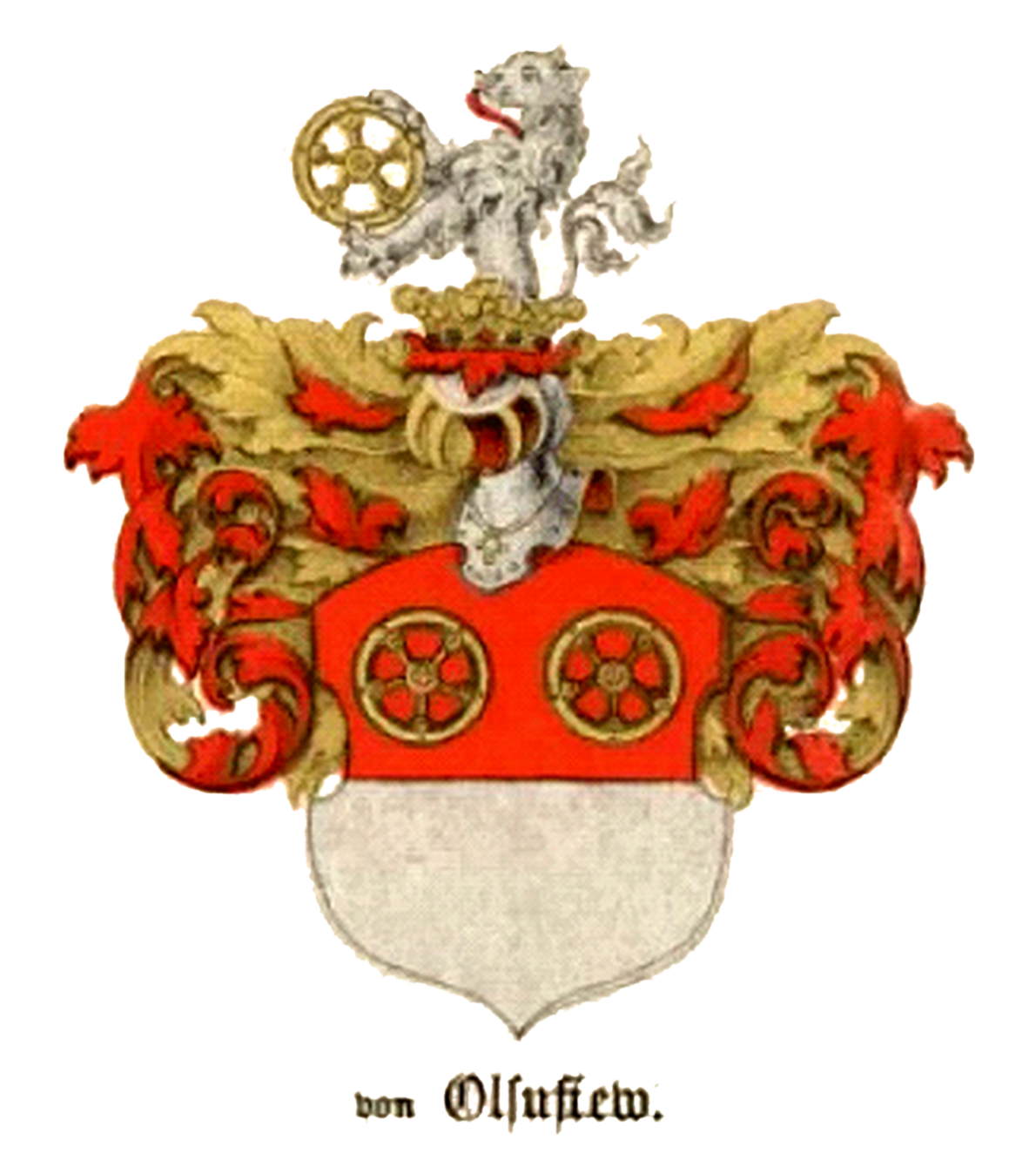 Coat of Arms of Olsufjev family